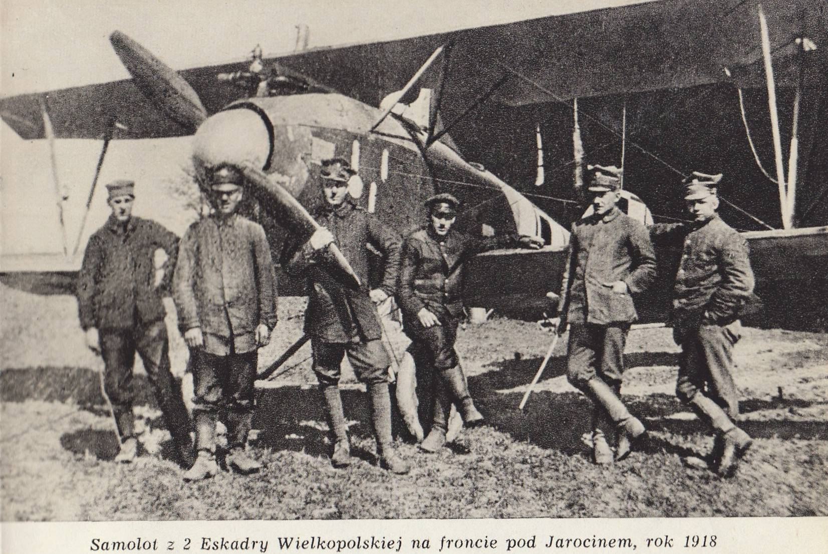 2 Eskadra Wielkopolska during fights near Jarocin